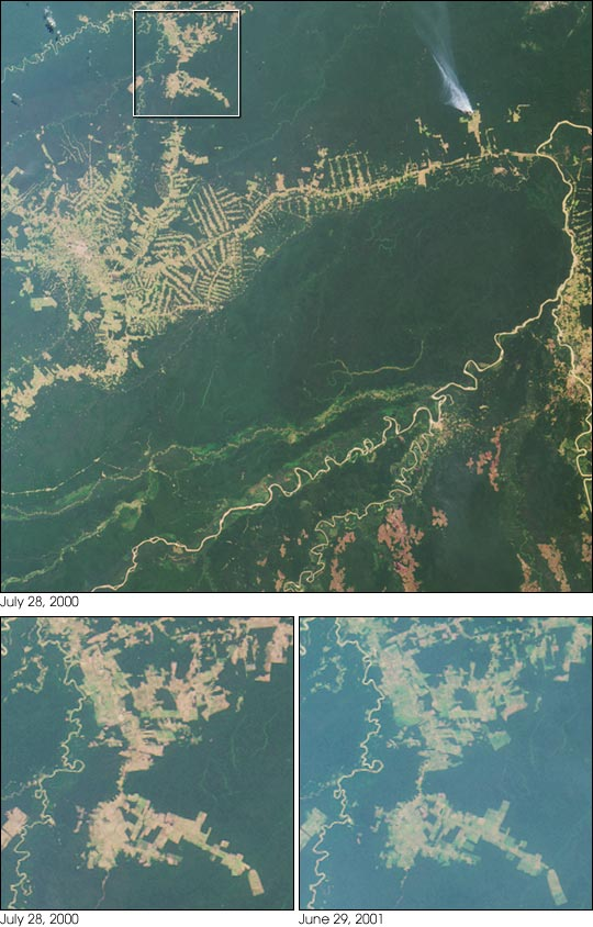 Settlement and deforestation surrounding the Brazilian town of Rio Branco are seen here in the striking "herring bone" deforestation patterns that cut through the rainforest.